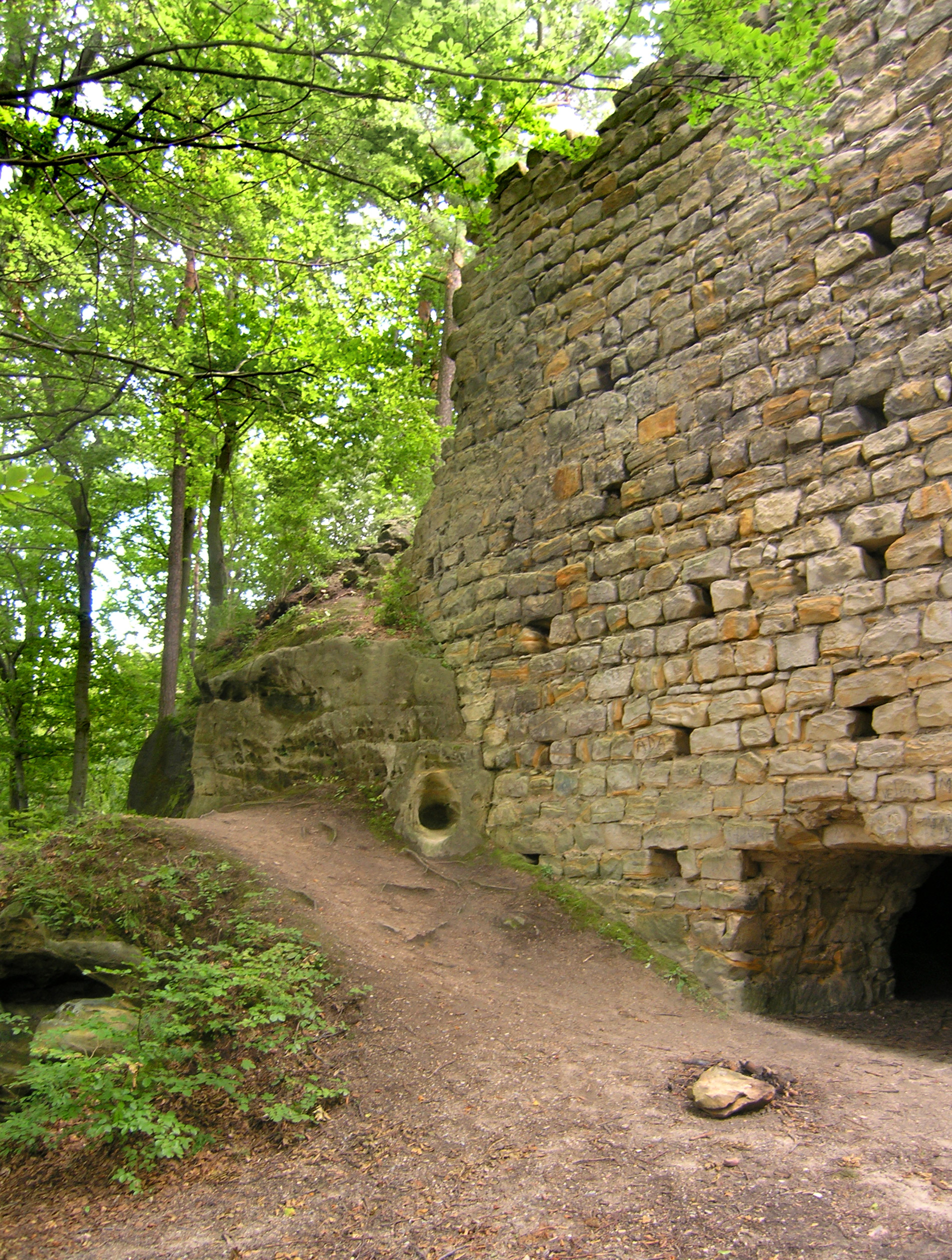 The ruins of Zbirohy castle in Koberovy village, Czech Republic